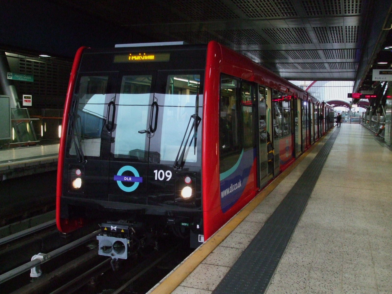 Brand new Unit 109 calls at Heron Quays DLR station with a southbound service